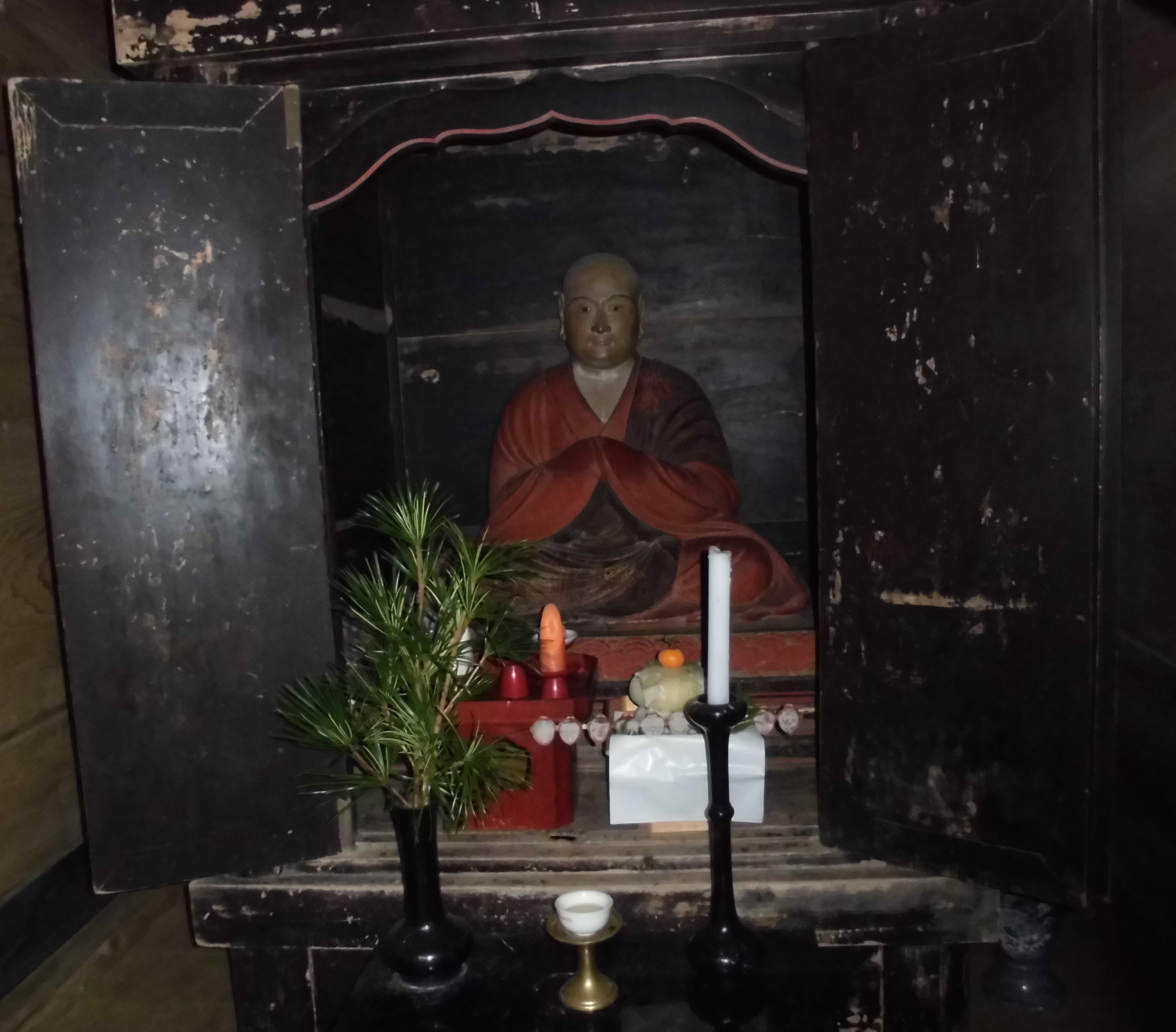 Wooden sculpture of Kakuban (1095-1143), the founder of Shingi-Shingon Buddhism, placed in the Kakuban-Hall (Mitsugon-dō), Oku-no-in, Mount Koya (Japan)